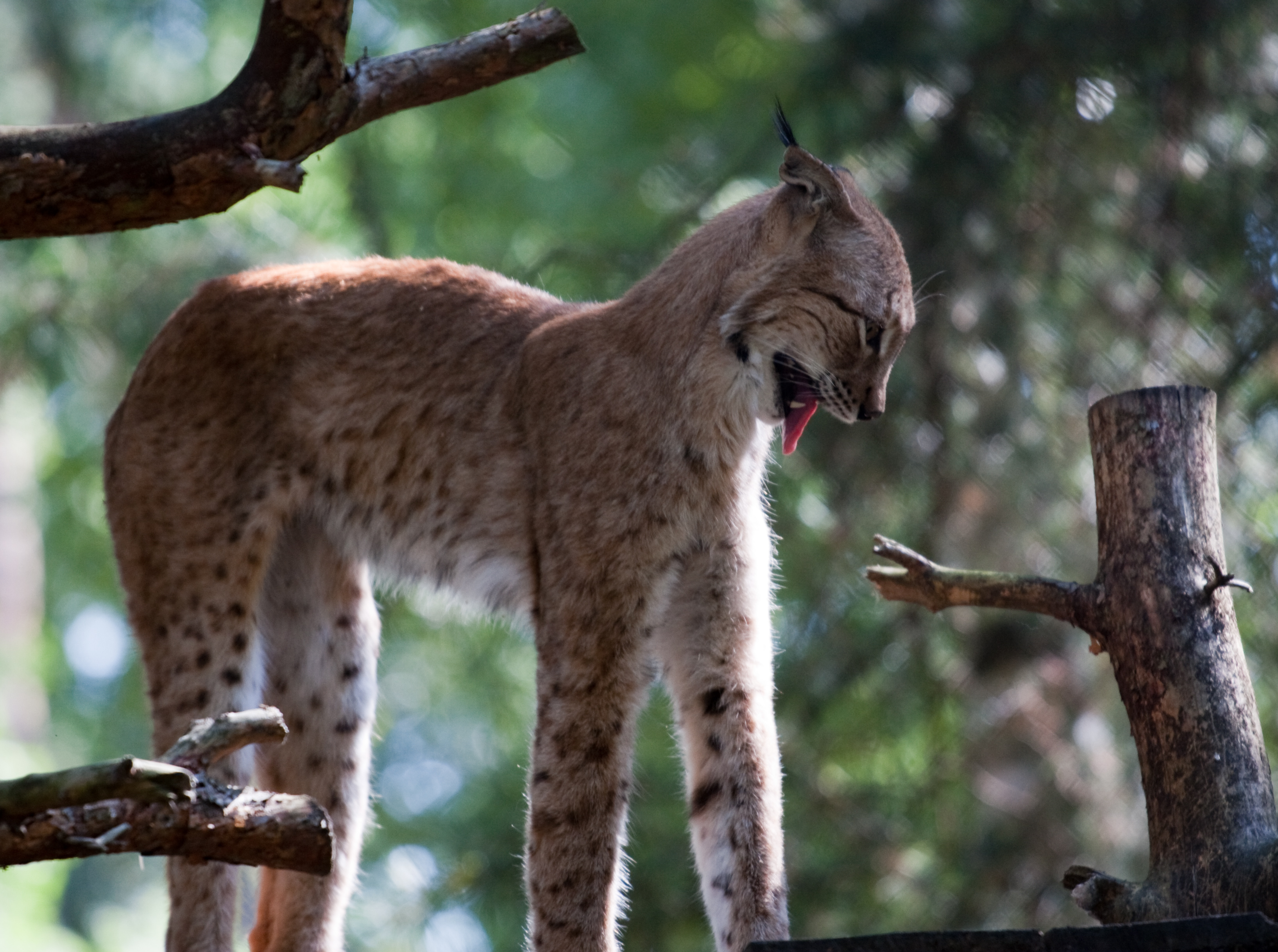 A lynx stretching itself after a nap in a wildlife zoo.